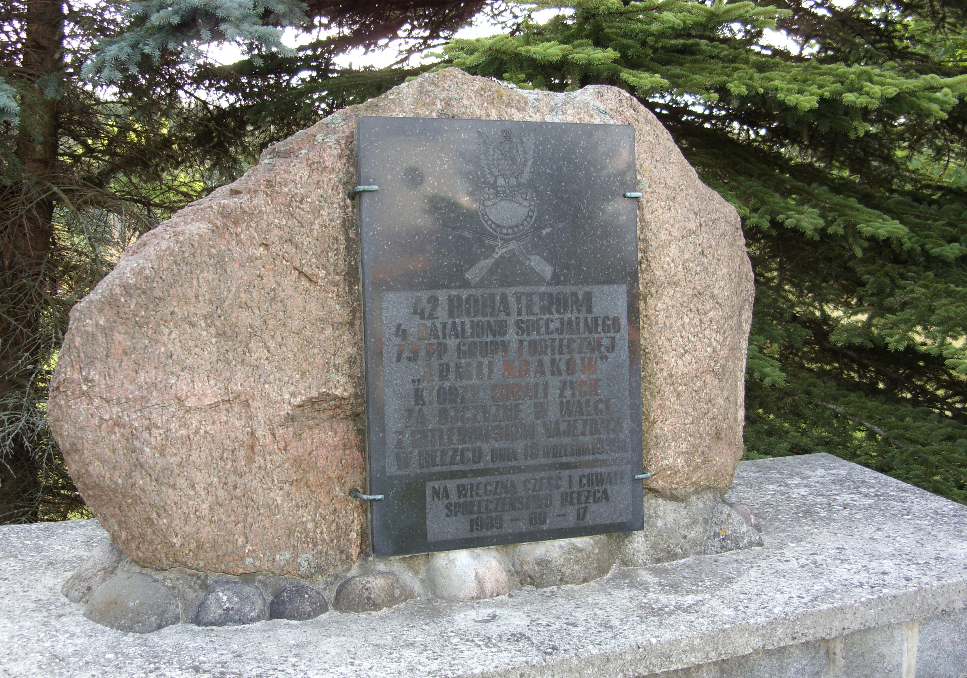 Monument in honor of the soldiers of the Polish Army who died in Bełżec on September 19, 1939, in defense of Poland against Nazi Germany during World War II. Monument at ulica Lwowska in Bełżec.